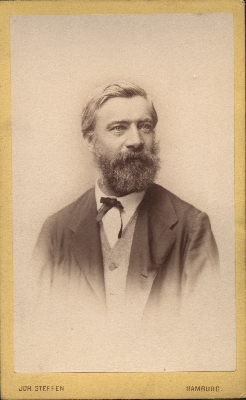 Carl Friedrich Eduard Dämel (1822-1900), German entomologist